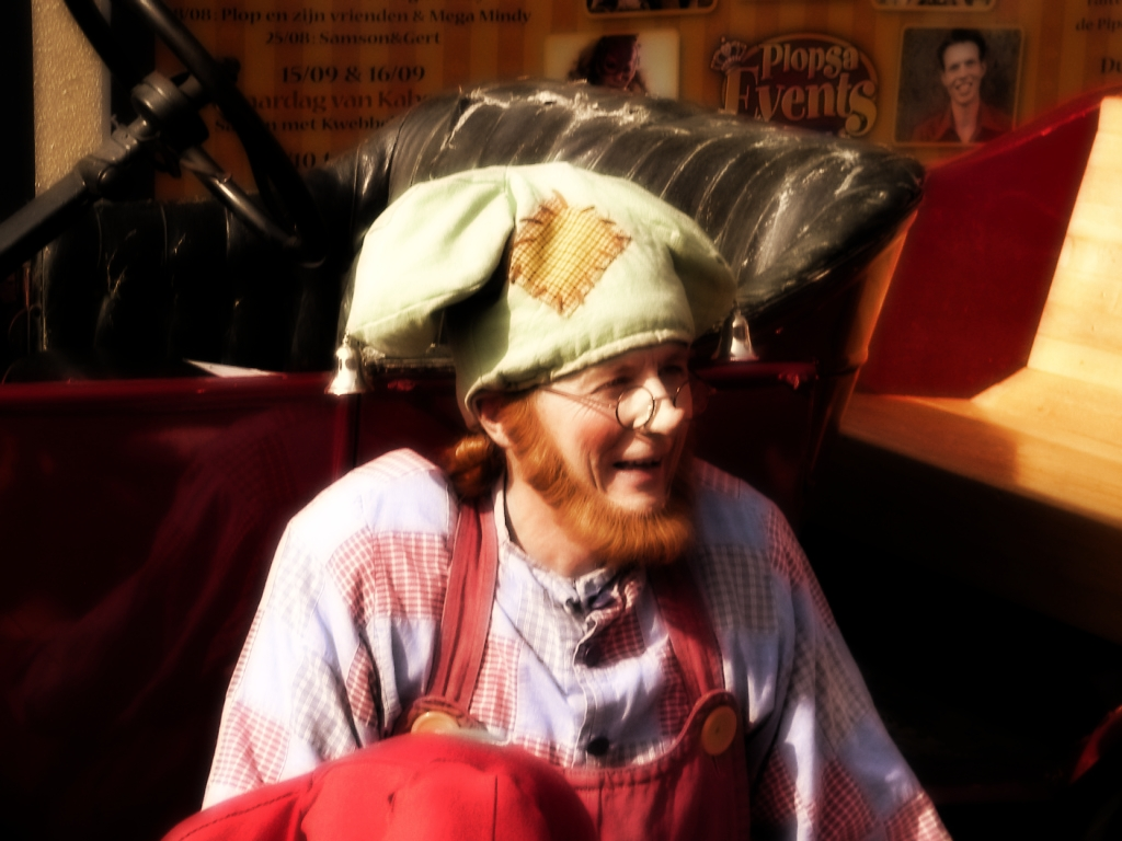 Aimé Anthoni als Kabouter Klus